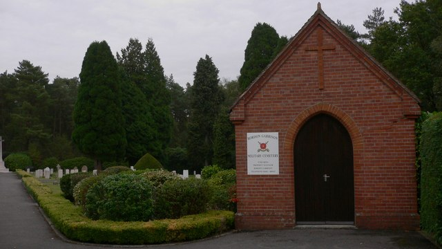 The chapel at Bordon Garrison Military cemetery. The notice by the door has been changed since 2004 1494752.